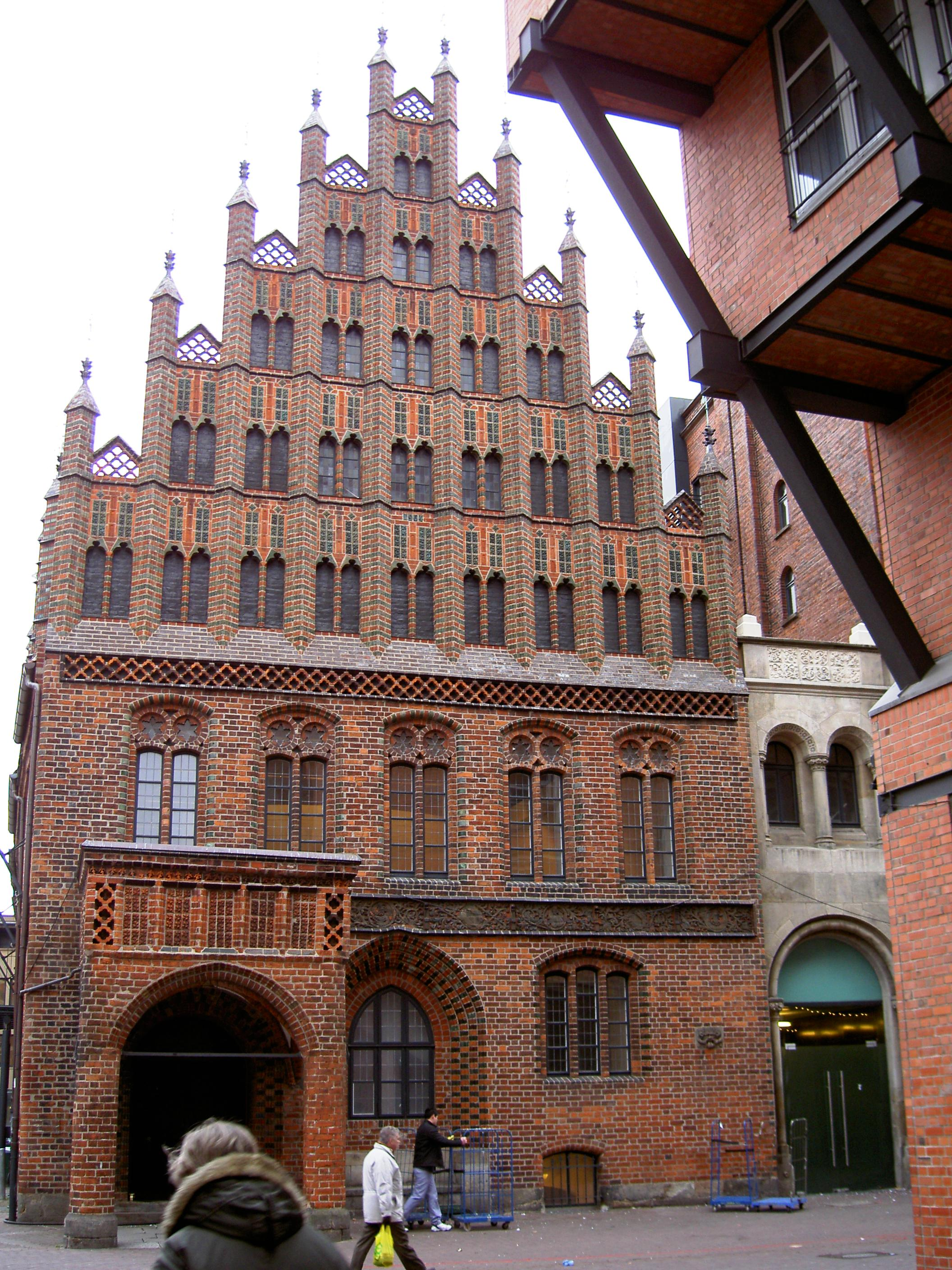 Old town hall of Hannover, Germany